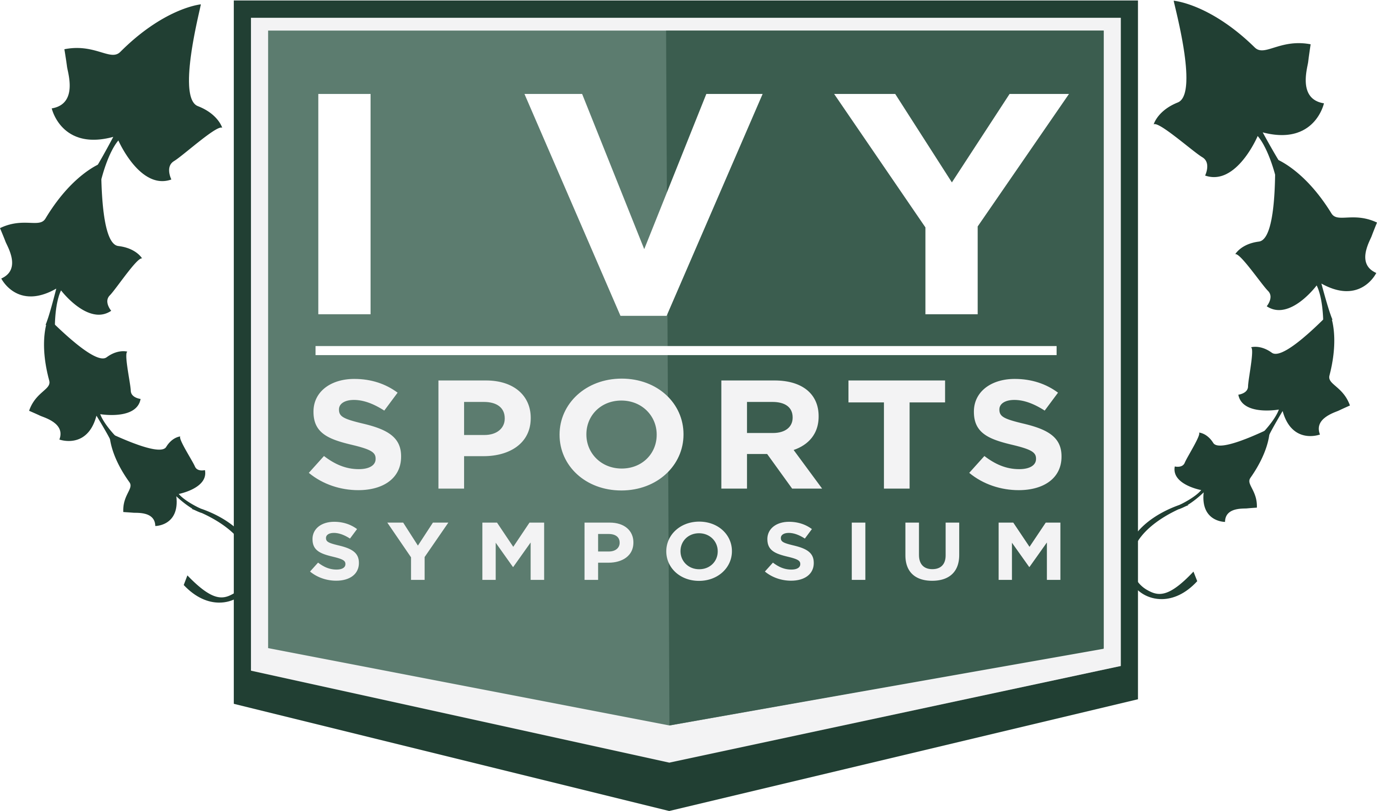 Ivy Sports Symposium primary logo